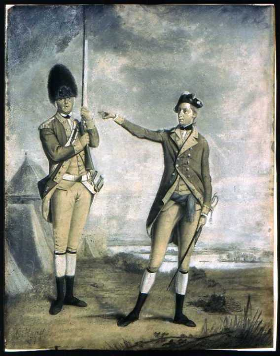 Painting depicting a soldier from a light company and an officer from a different company of the same regiment. Given the date when the painting was created, as well as the facings, lace and hats, it appears that the two men are from the 62nd Regiment of Foot.